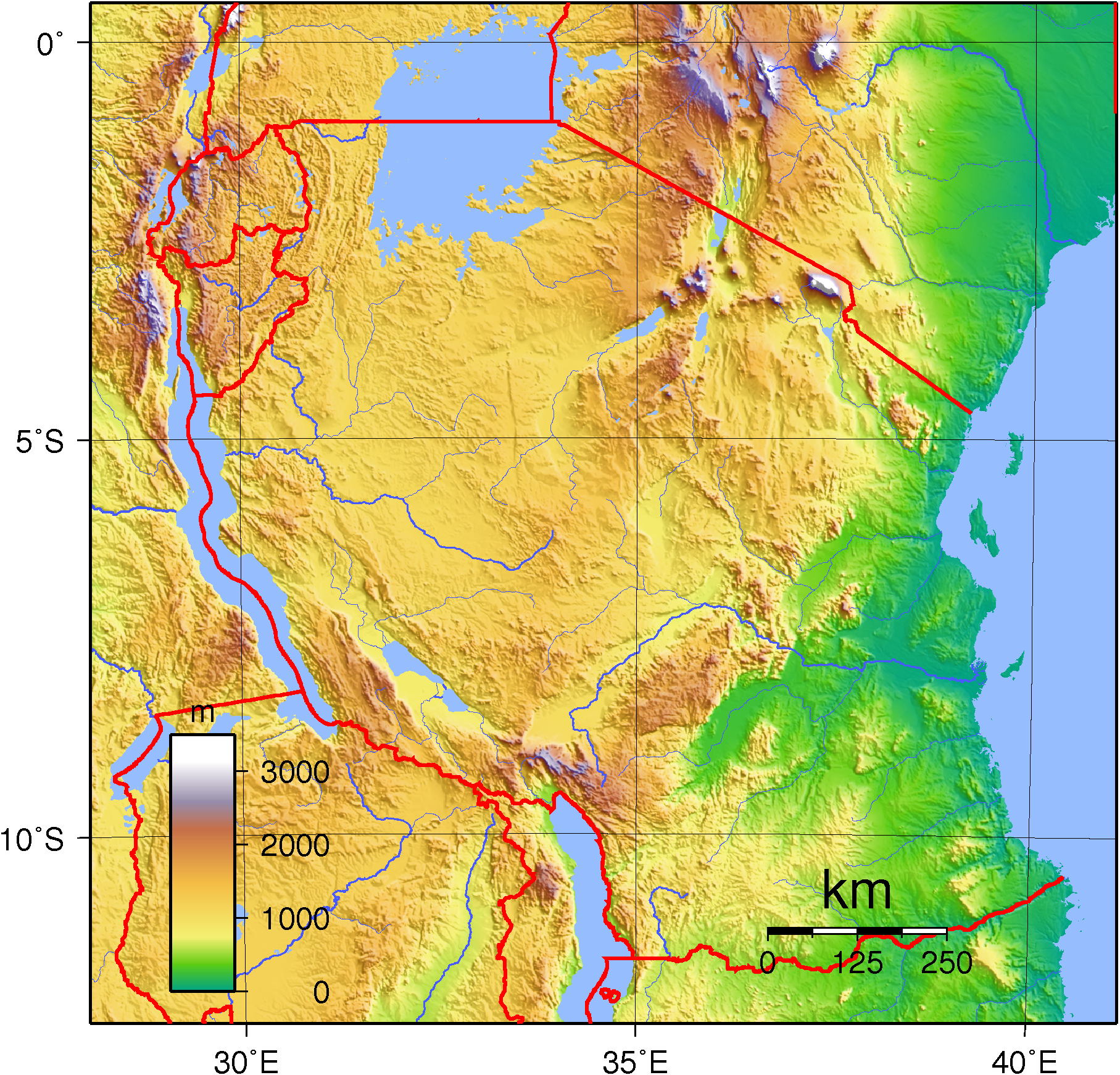 Topographic map of Tanzania. Created with GMT from public domain GLOBE data.